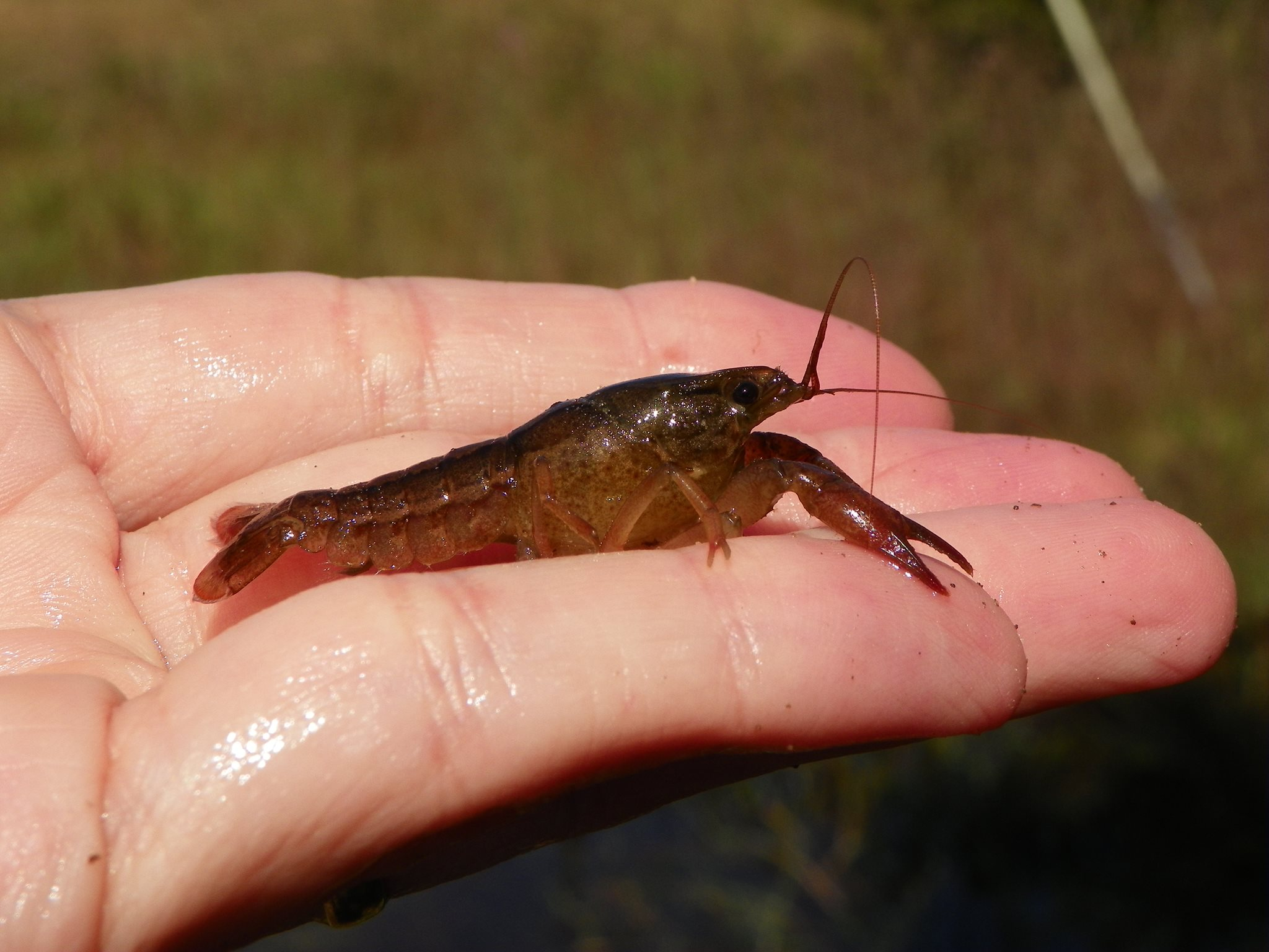 The Panama City crayfish (Procambarus econfinae) is known only from the Panama City area of Bay County in Northwest FL. Much of their natural habitat (wet pine flatwoods) has been lost or degraded through residential, commercial, and industrial development. We’re working with our state partners to restore and improve management on wetland properties throughout the species range.